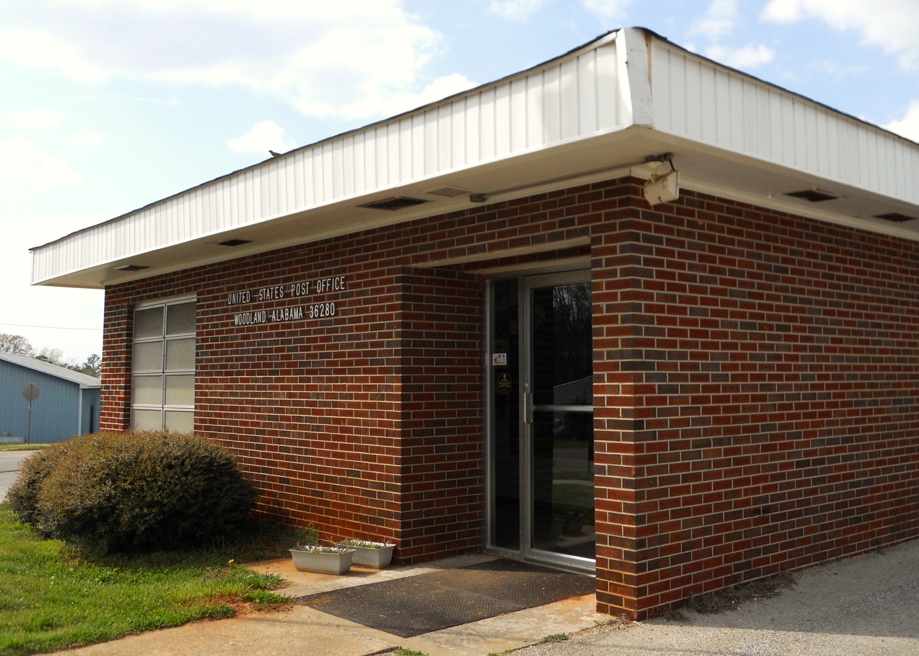 This is a photograph of the post office in Woodland, Alabama (zipcode: 36280).